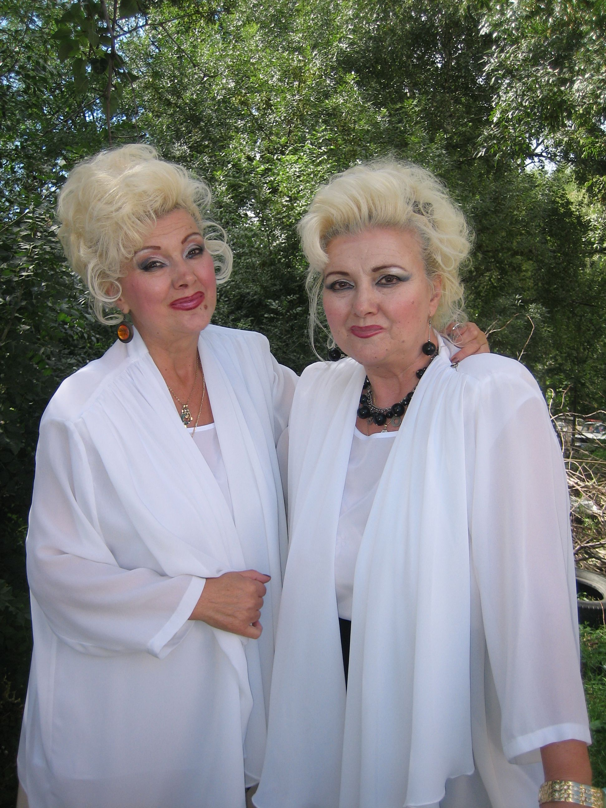 Adjovi Sisters